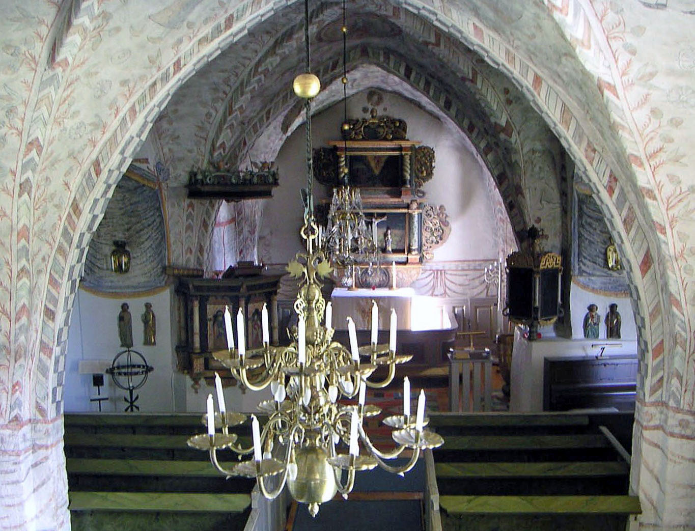 Marbäck Church.Interior from the gallery.